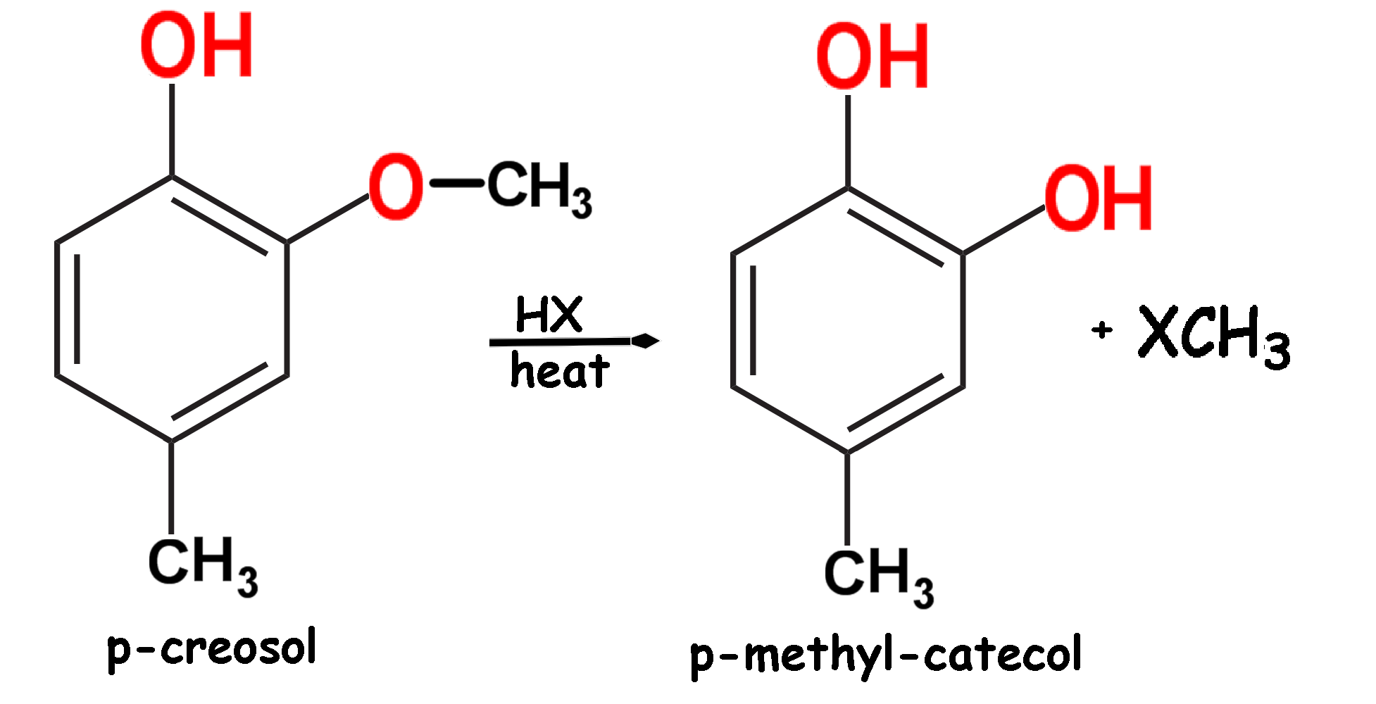 Cresol Halogenation to form p-methyl-catecol